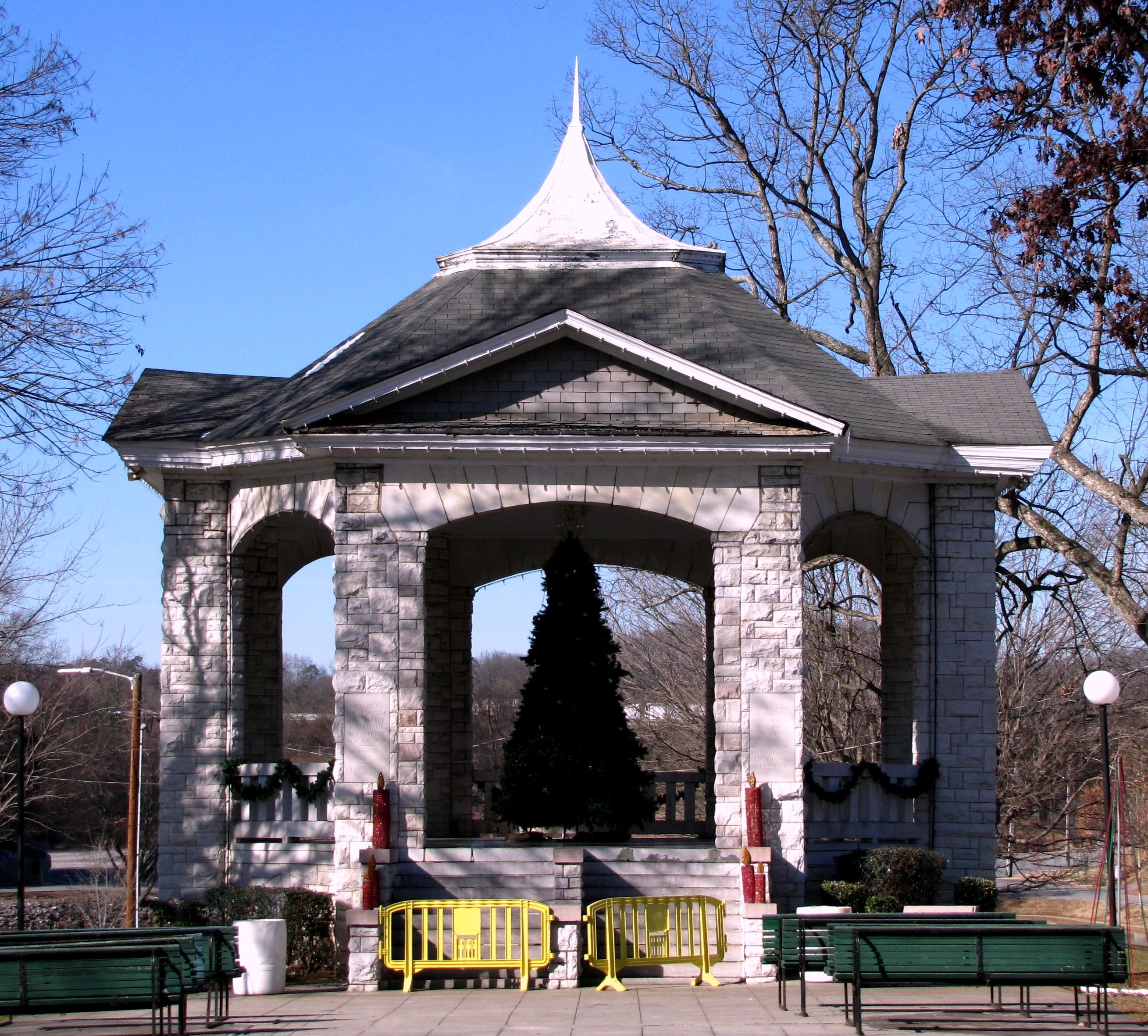 Bandstand at Chilhowee Park in Knoxville, Tennessee, USA. This bandstand was built in 1910 for the Appalachian Exposition. It was designed by local architect R. F. Graf, and was built with Tennessee "pink" marble donated by several local marble companies.